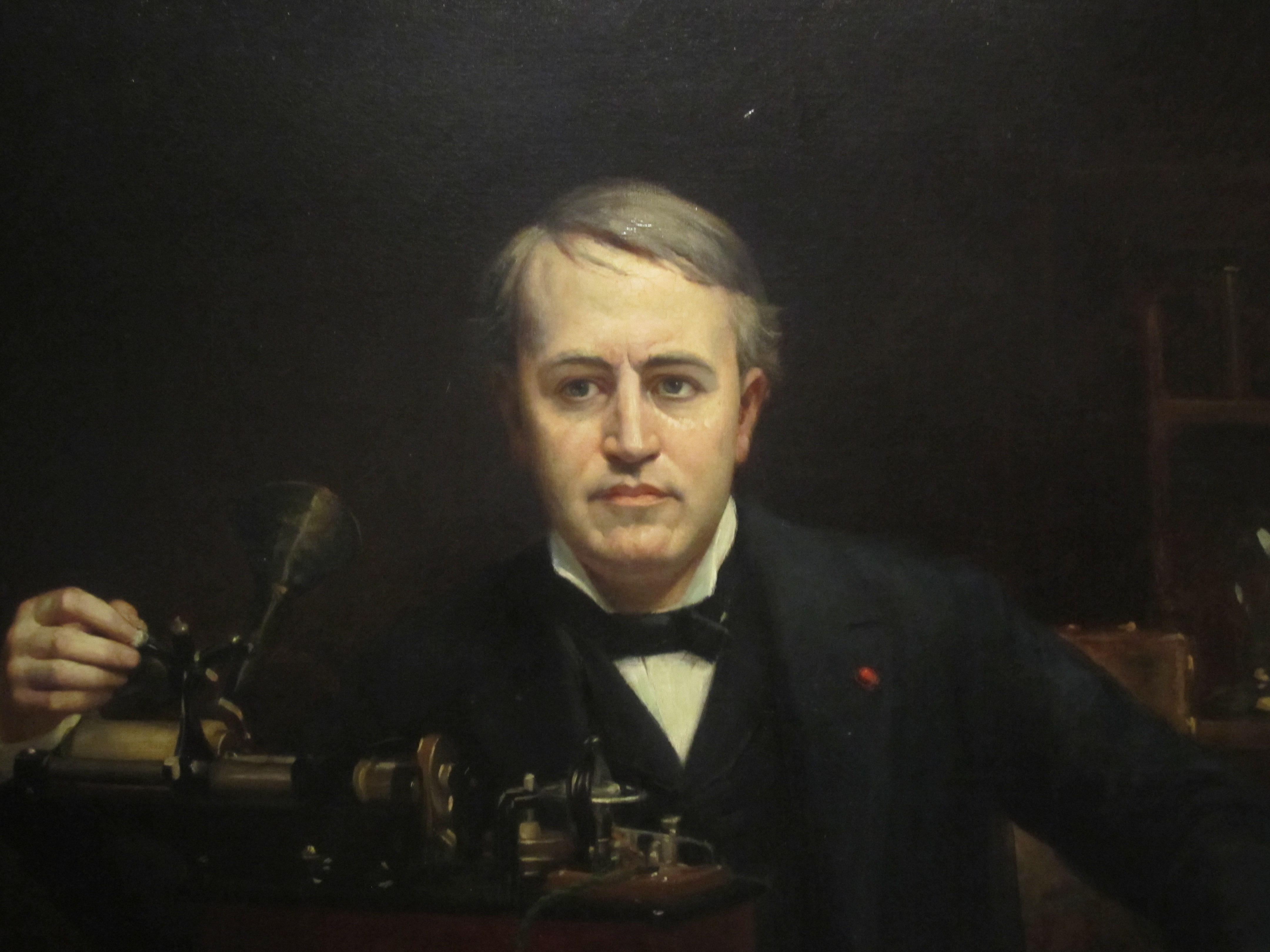 I took photo of Thomas Edision at National Portrait Gallery with Canon camera. Public domain.